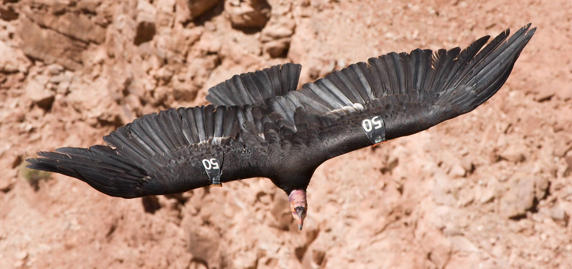 A Californian Condor in flight, photographed from the Navajo Bridge at Marble Canyon.